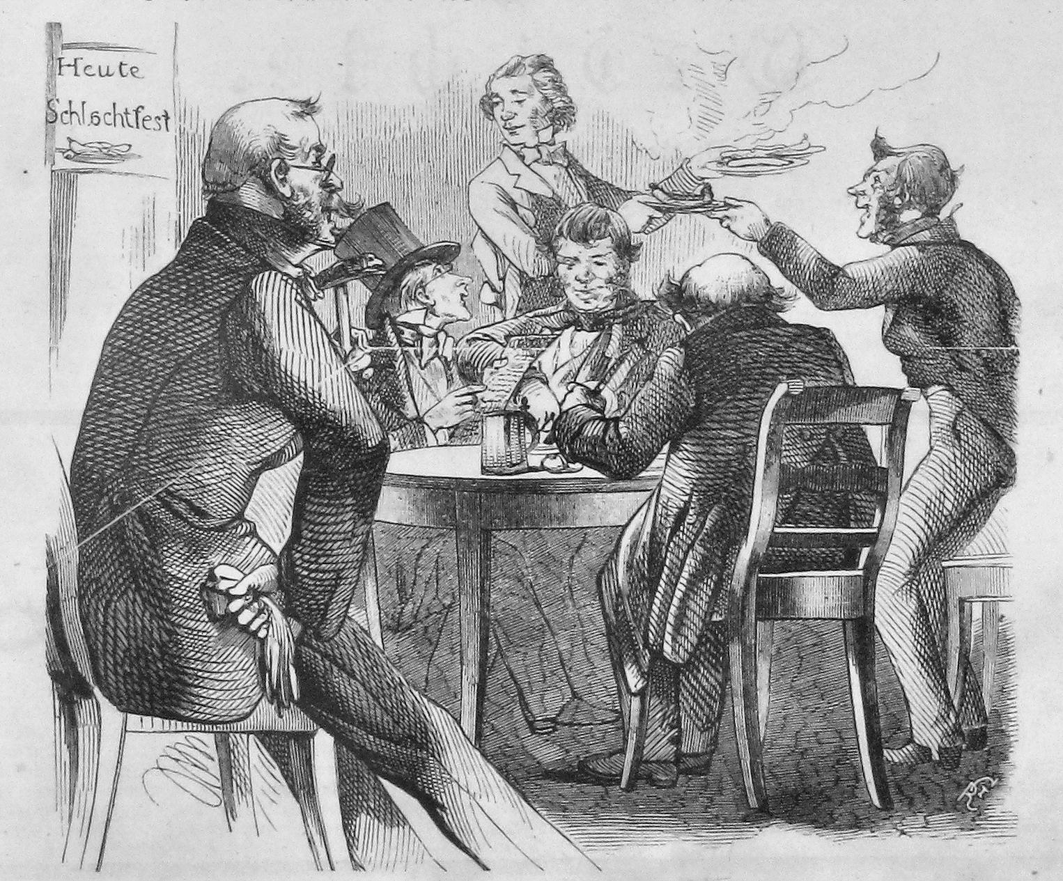 no caption